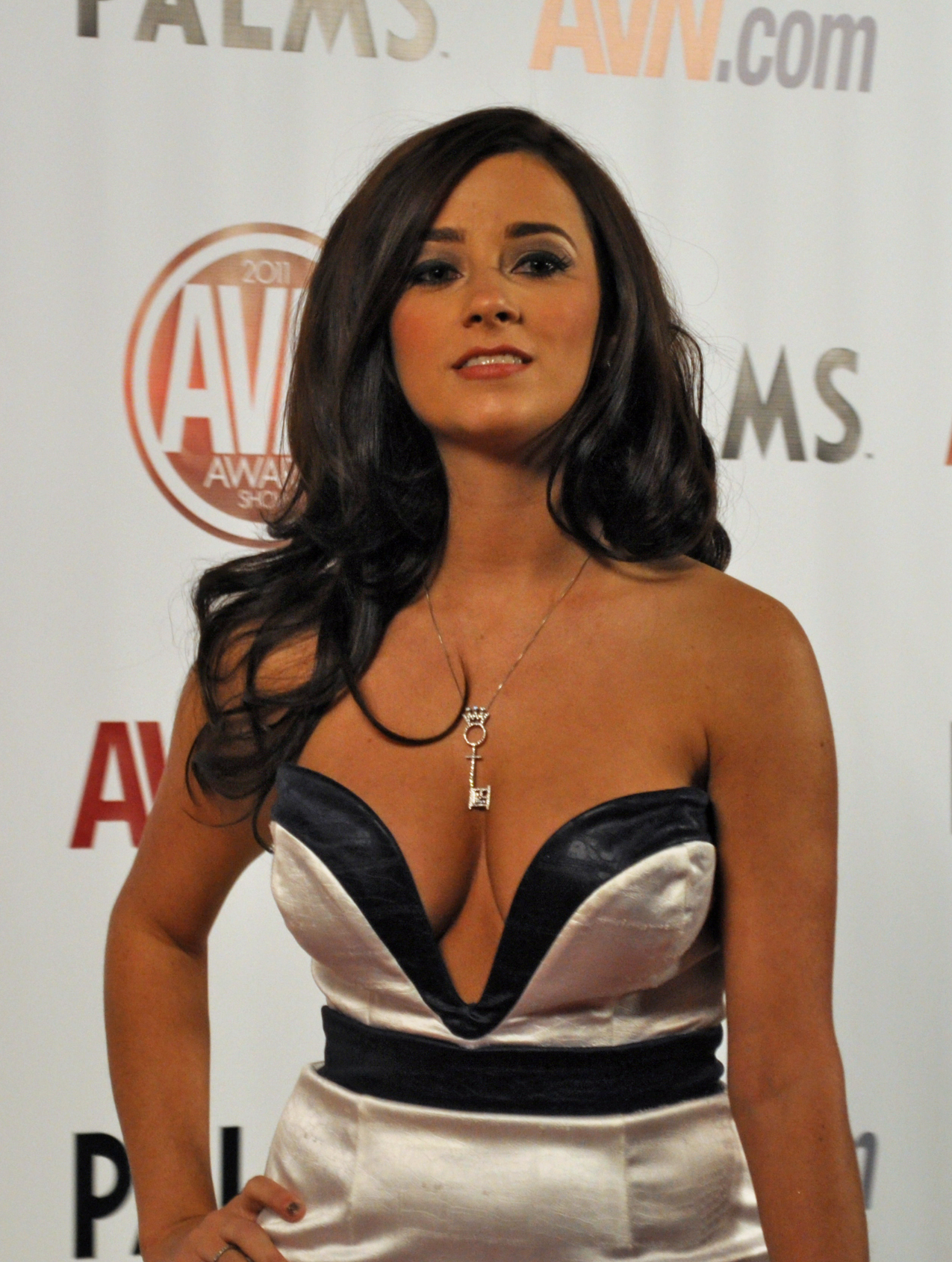 Taylor Vixen at AVN Awards 2011.